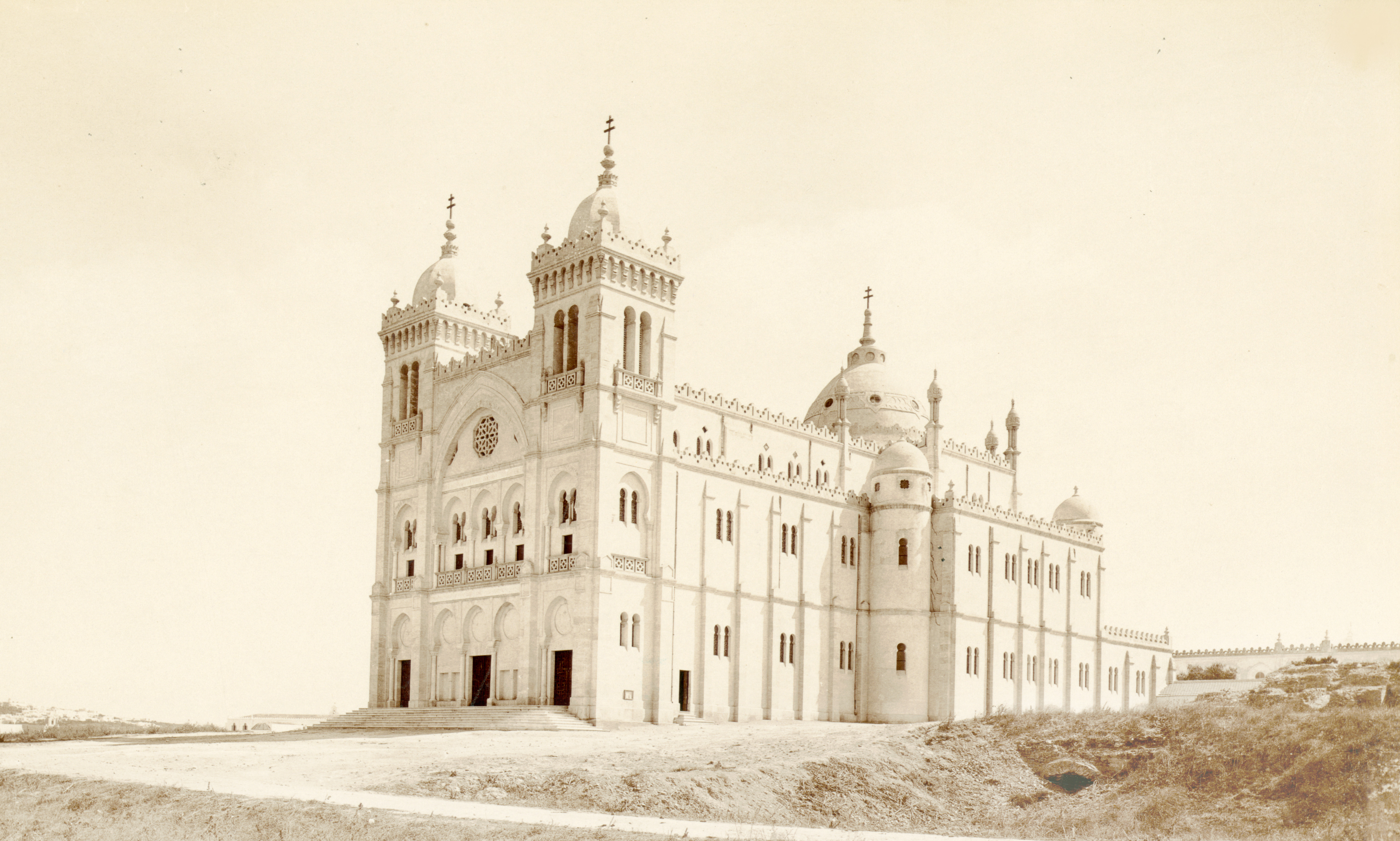 Exterior of Cathedral of St. Louis, Carthage, Tunisia. Photograph by Neurdein Frères between 1881 and 1890. Sons of the photographer Jean César Neurdein, the Neurdein brothers opened a photographic studio in Paris in 1863, with each taking on different responsibilities in the business. Étienne managed the studio and photographed portraits, while Louis-Antonin travelled widely photographing monuments, buildings and landscapes. Maison Neurdein thus produced not only portraits of famous people of the era but also views of France, Belgium, Algeria and Canada. It also published numerous postcards under the trademarks "ND" and "X". Taken from the Neurdein Frères Collection at the U.S. Library of Congress.